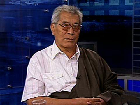 Juchen Thupten Namgyal